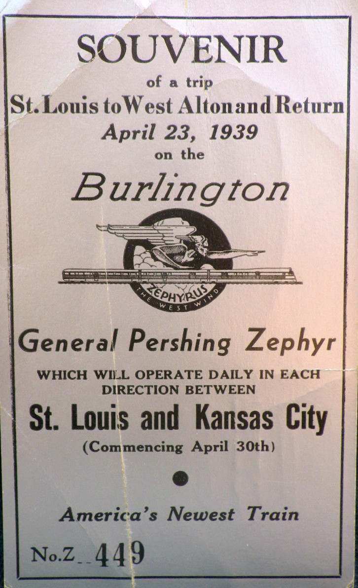 Ticket from the trial run of the General Pershing Zephyr for a round trip between Alton and St. Louis. The trial run took place on April 23, 1939, with the train entering regular service between St. Louis and Kansas City on April 30, 1939.